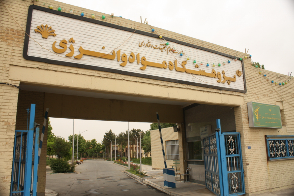 Entrance of Materials and Energy Research Center, Karaj, Iran.